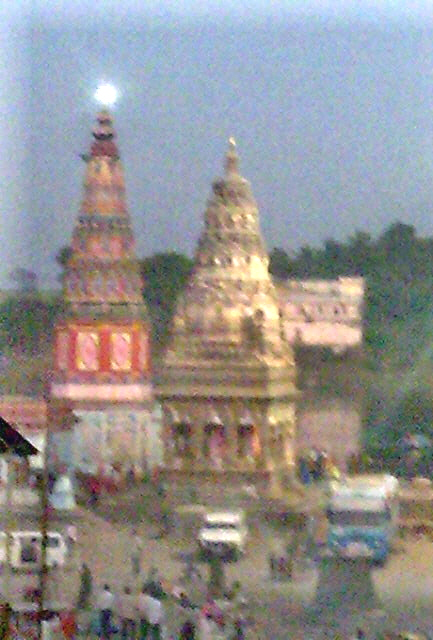 Pundalik's temple (left) on the banks of the river Chandrabhaga, Pandharpur